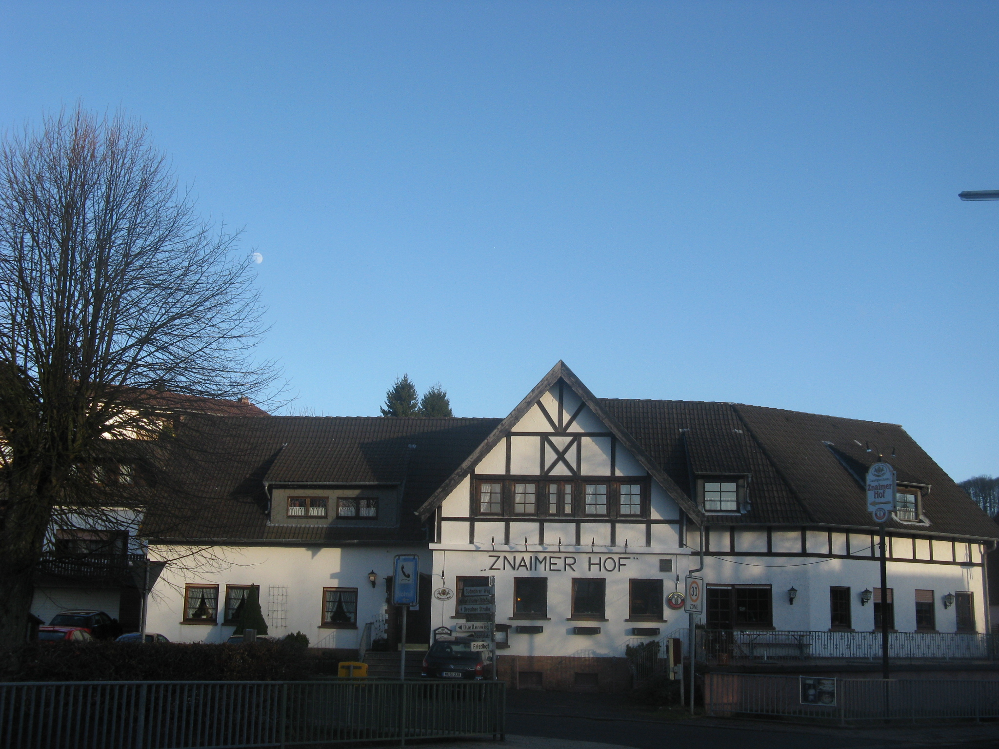 Lettgenbrunn, Znaimer Hof